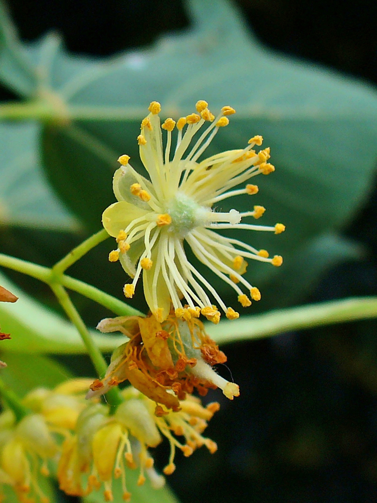 Tilia x euchlora, Malvaceae, Caucasian Lime, flower. Karlsruhe, Germany.